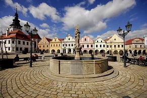 Pelhřimov, Vysočina Region, the Czech Republic. A fountain with a statue of Saint James on Masaryk Square